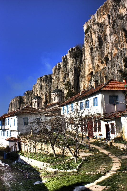 The Patriarch Monastery near Veliko Tarnovo, Bulgaria.